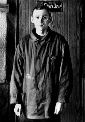 Kovalchuk - one of the leader of White brotherhood (New religious movements) in Ukraine